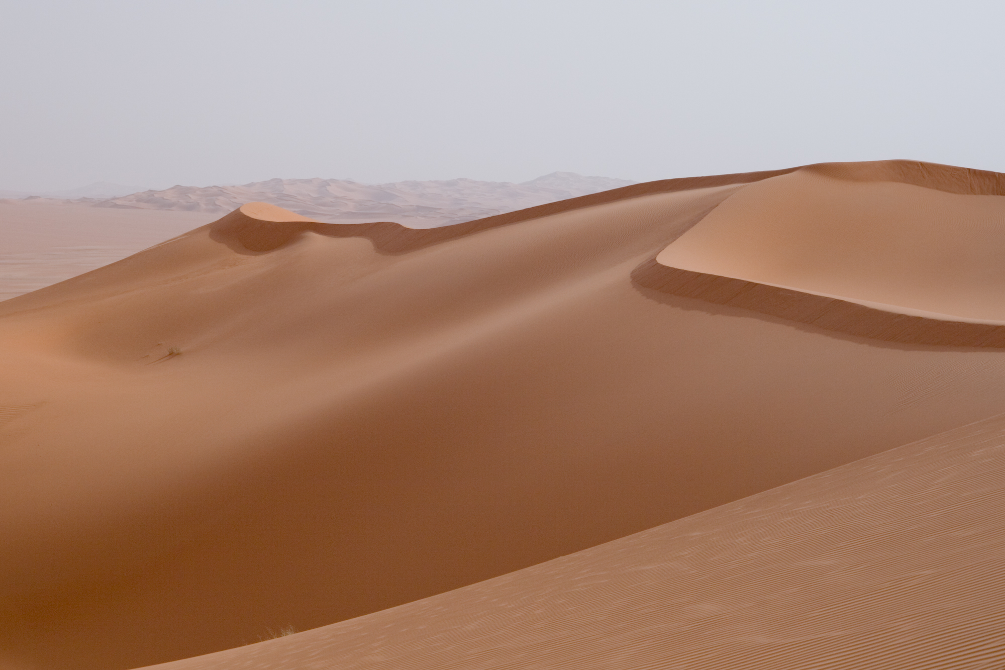 Dunes of Erg Awbari (Idehan Ubari) in the Sahara desert region of the Wadi Al Hayaa District, of the Fezzan region in southwestern Libya. The Ubari oasis is within the dune system.